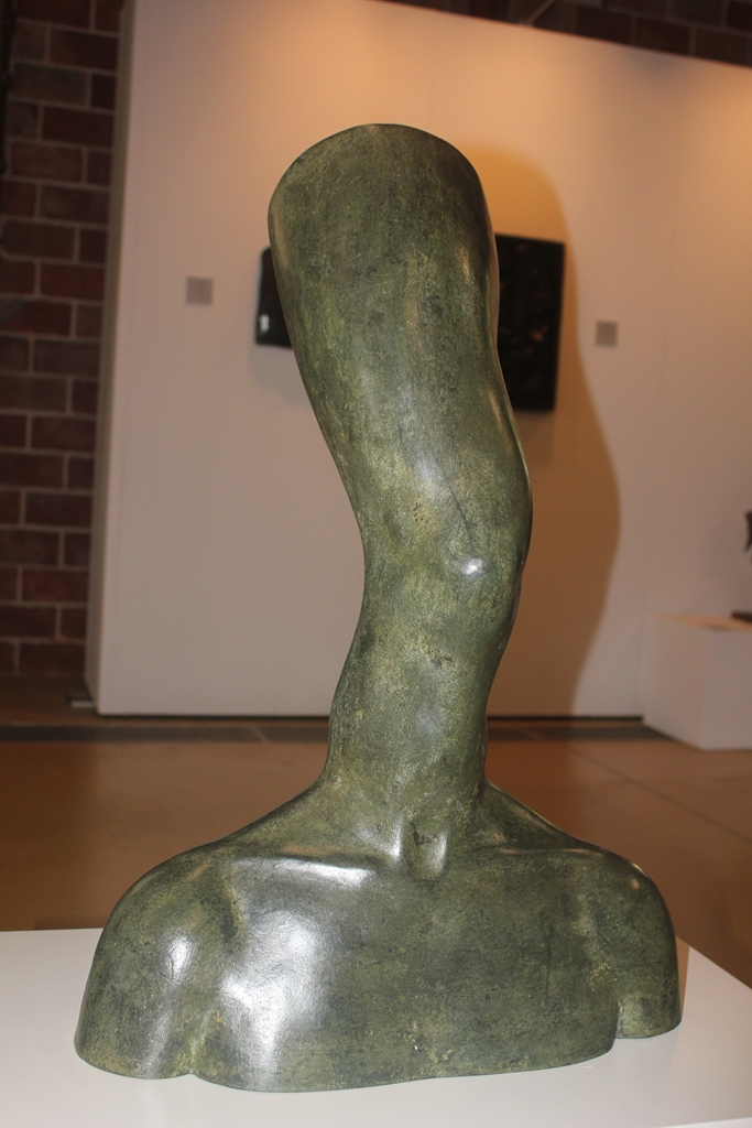 Xavier Medina Campeny: Nefertiti